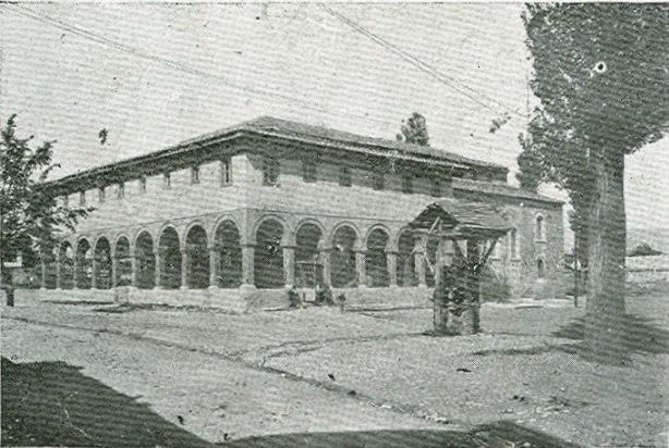 Црквата Св. Богородица во Скопје